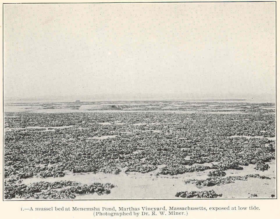 Mussel bed at Menemsha Pond, Marthas Vineyard, Massachusetts, exposed at low tide Subject: Mytilus edulis, Mussels, Marthas Vineyard (Massachusetts) Geographic Subject: United States--Massachusetts--Marthas Vineyard Tag: Shellfish